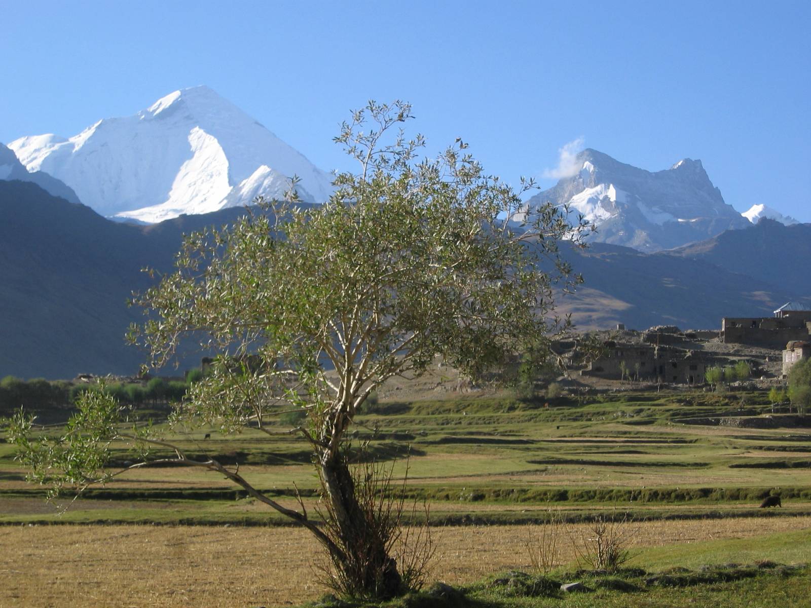 Lower Suru Valley landscape viewed from near Purtikchay between Sanku and Panikhar